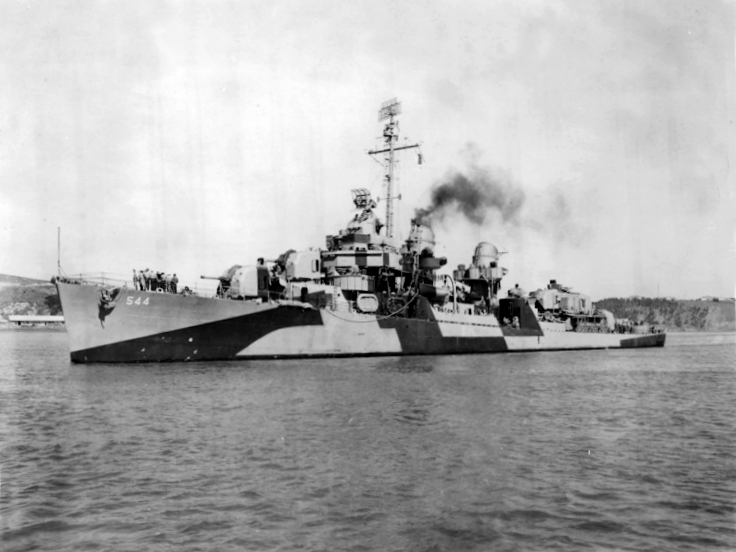 The U.S. Navy destroyer USS Boyd (DD-544) off the Mare Island Naval Shipyard, California (USA), on 19 March 1944. She is painted in Camouflage Measure 31, Design 10D.